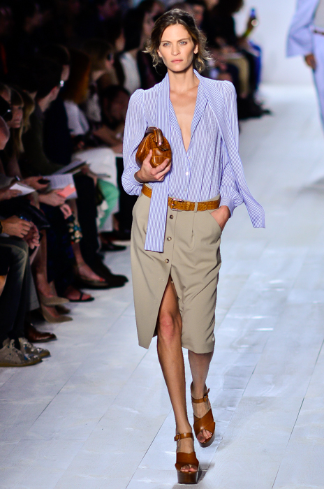 A model walks the runway at the Michael Kors Spring/Summer 2014 show at New York Fashion Week, September 2013.